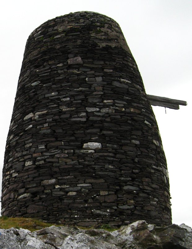 Eask Tower is on the East tip of Ballyameenboght, South of Dingle Bay